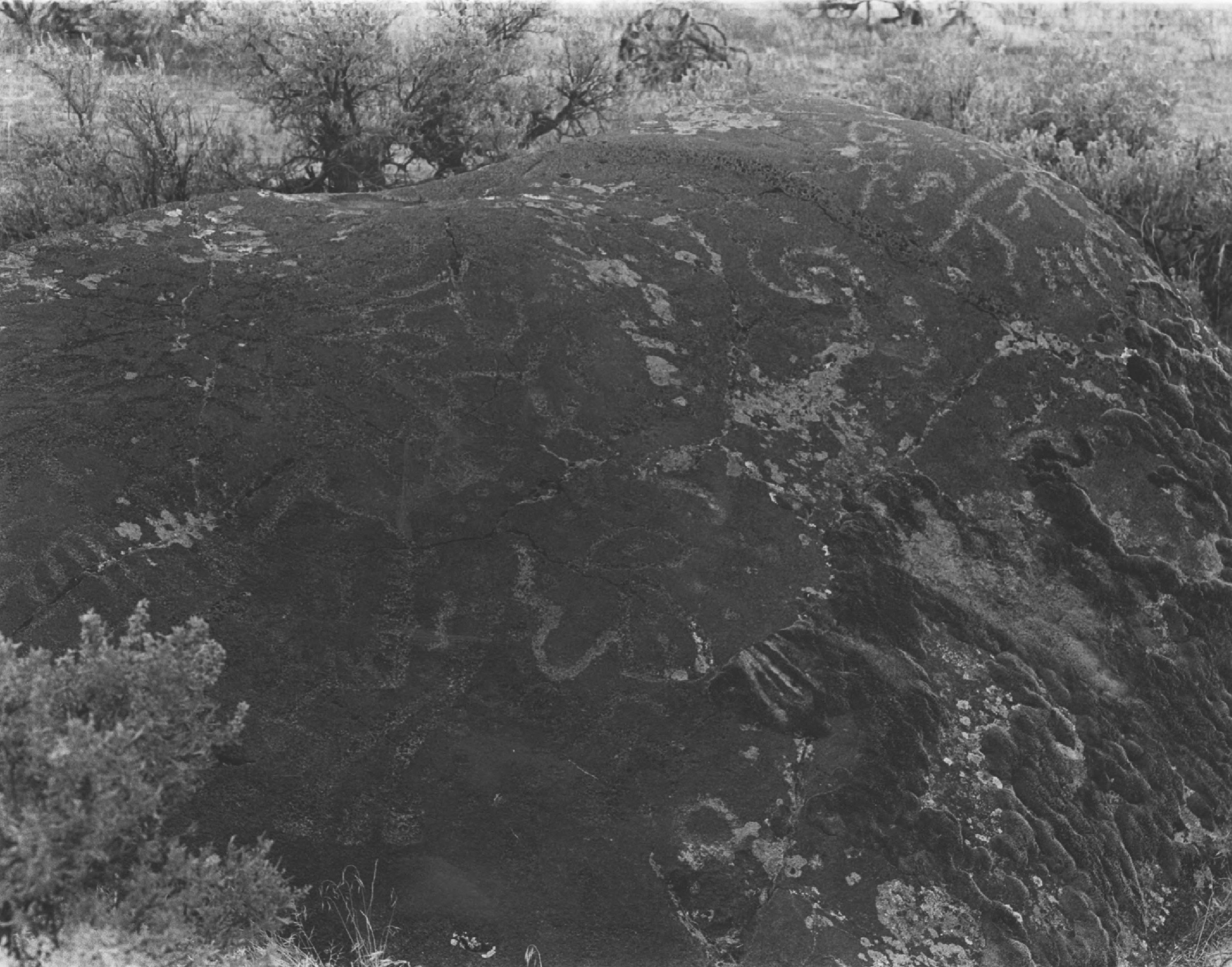 Petroglyph boulder at Wees Bar in the Guffey Butte – Black Butte Archeological District, Idaho, United States. The boulder measures 4 feet (1.2 m) wide. (Owyhee County.)